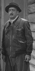 Miguel Coiro-actor